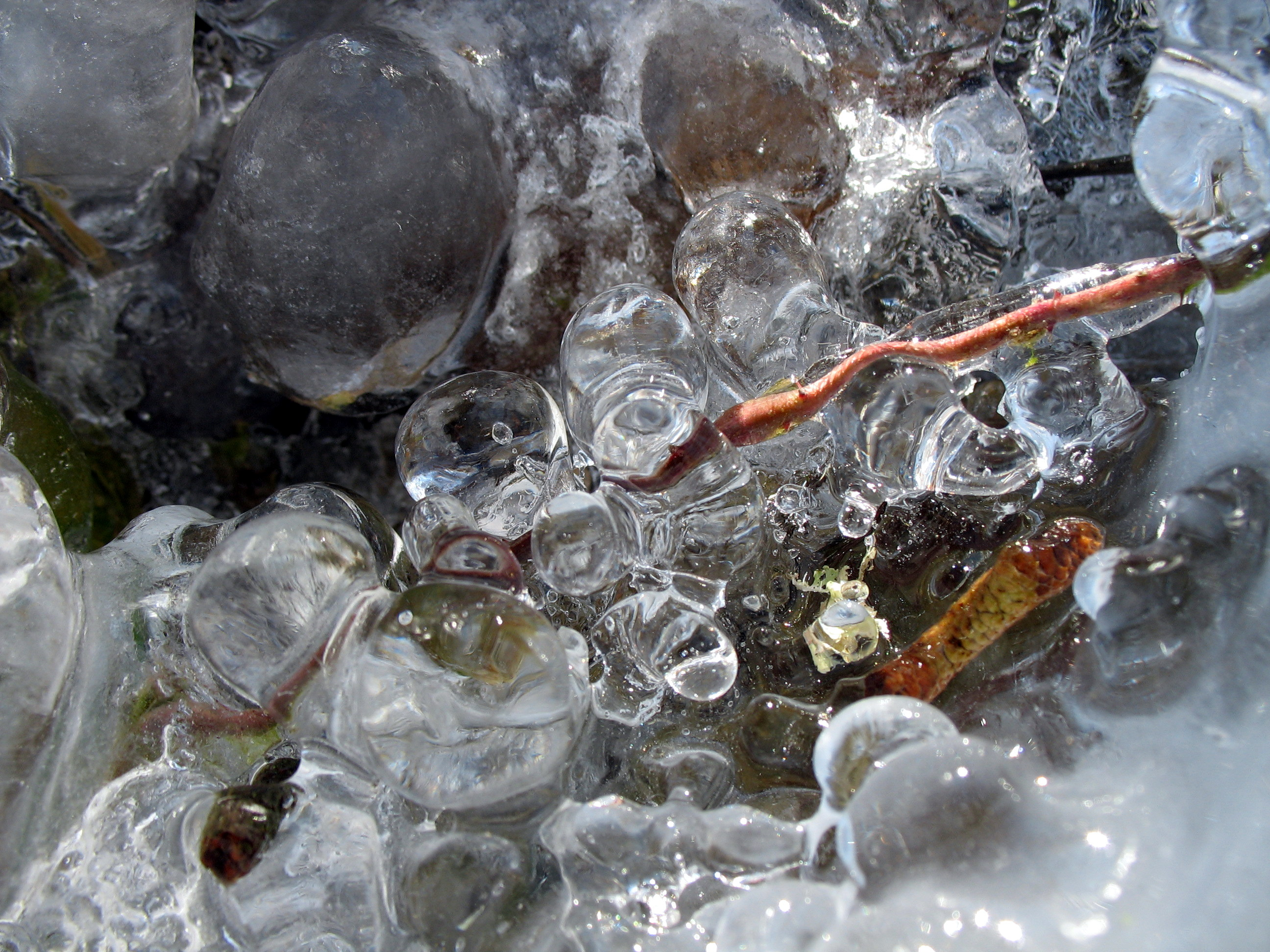 Thorn in ice.